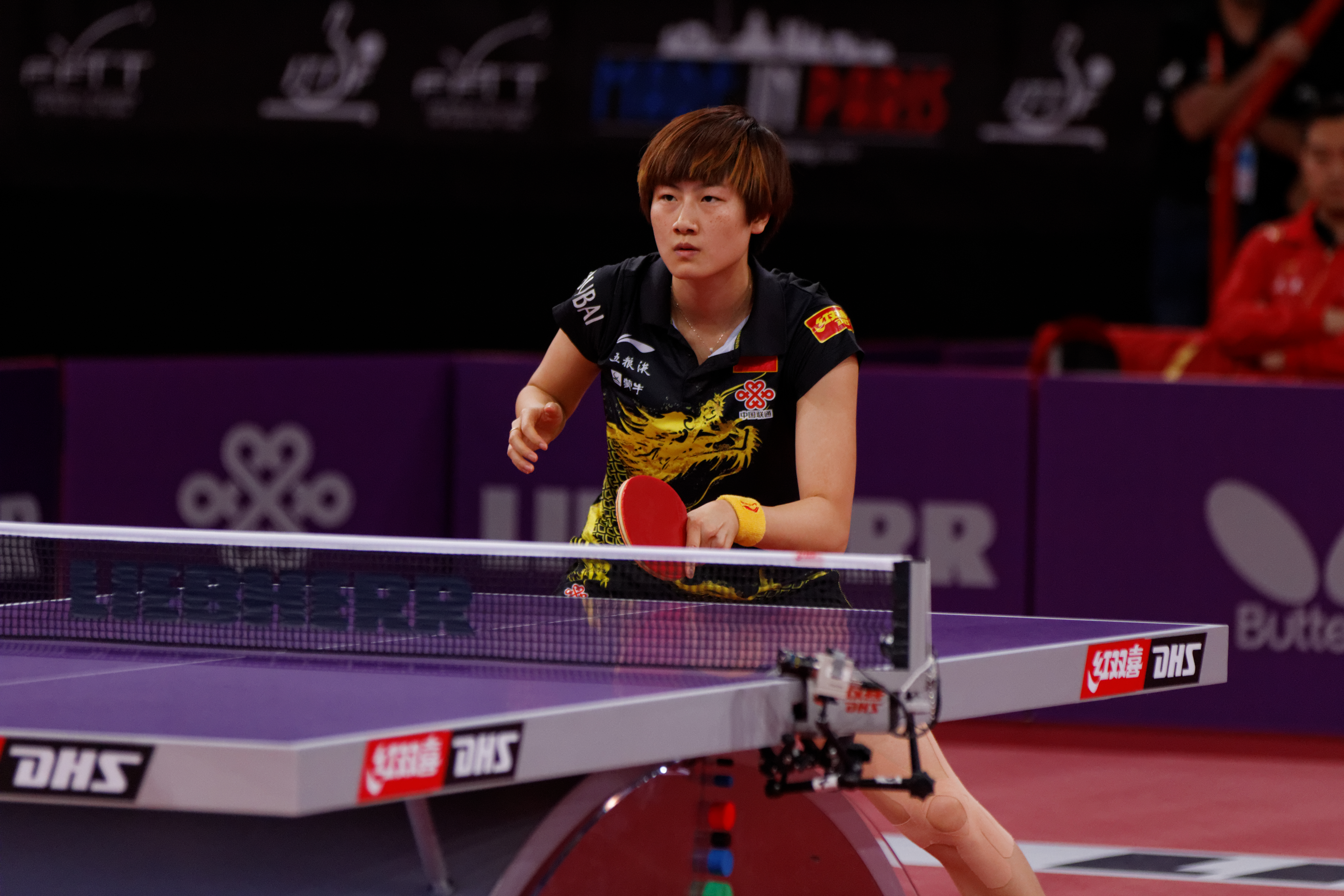 2013 World Table Tennis Championships, Paris. Women's Singles Quarterfinal. Ding Ning vs Ri Myong-Sun.